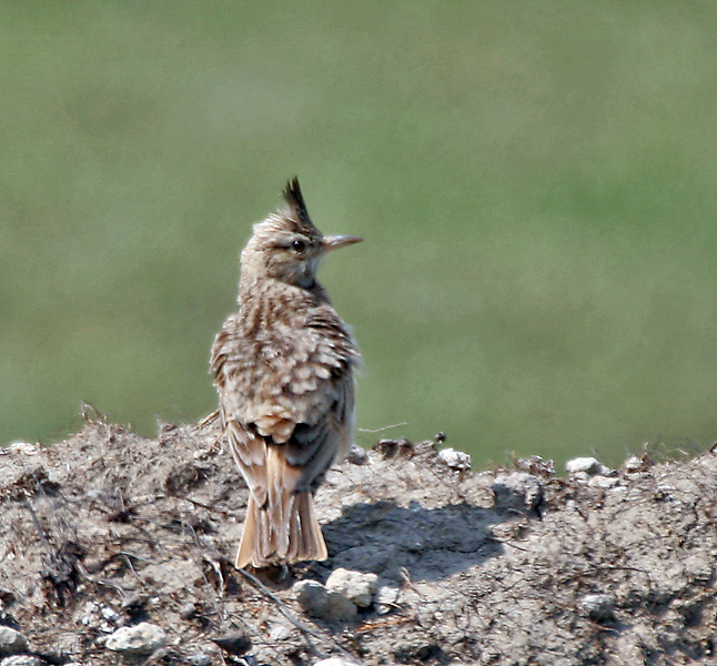 Crested Lark (Galerida cristata) at Sultanpur National Park in Gurgaon District of Haryana, India.